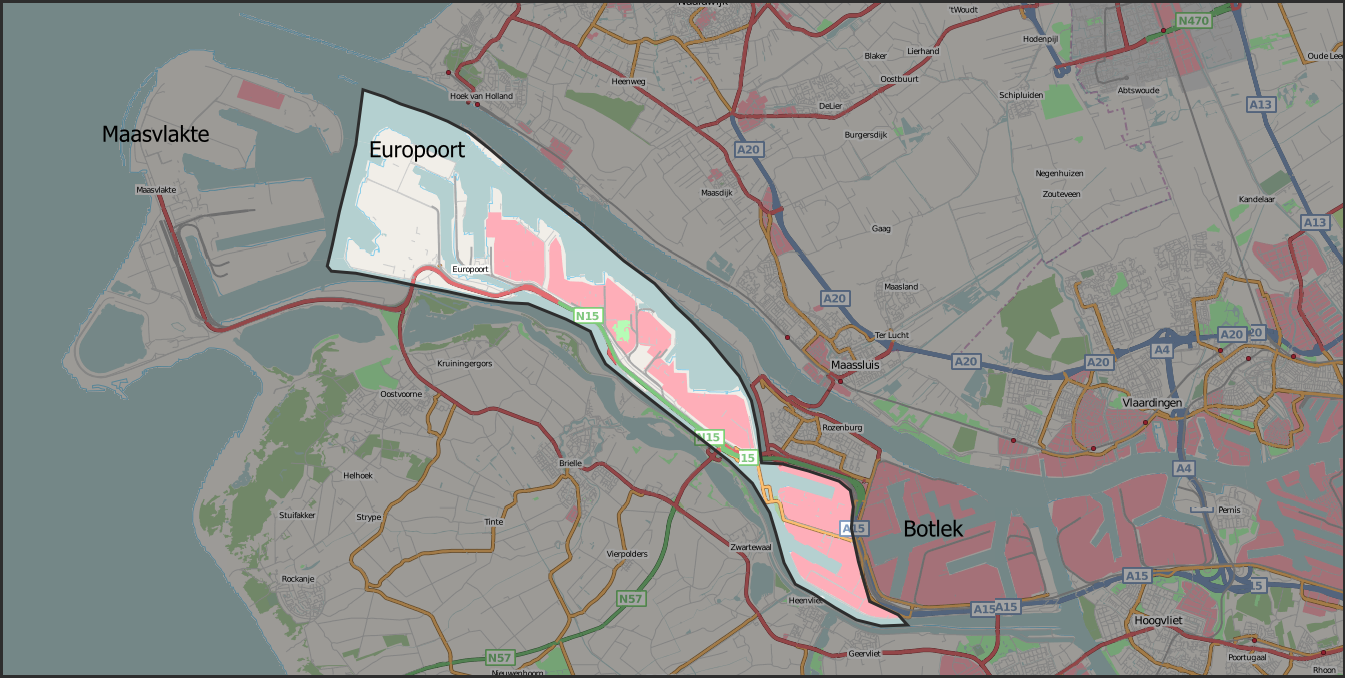 Map of the Europoort harbour area in Dutch municipality of Rotterdam. The background map is taken from . The boundary was drawn by me using the description in the Dutch Europoort article.